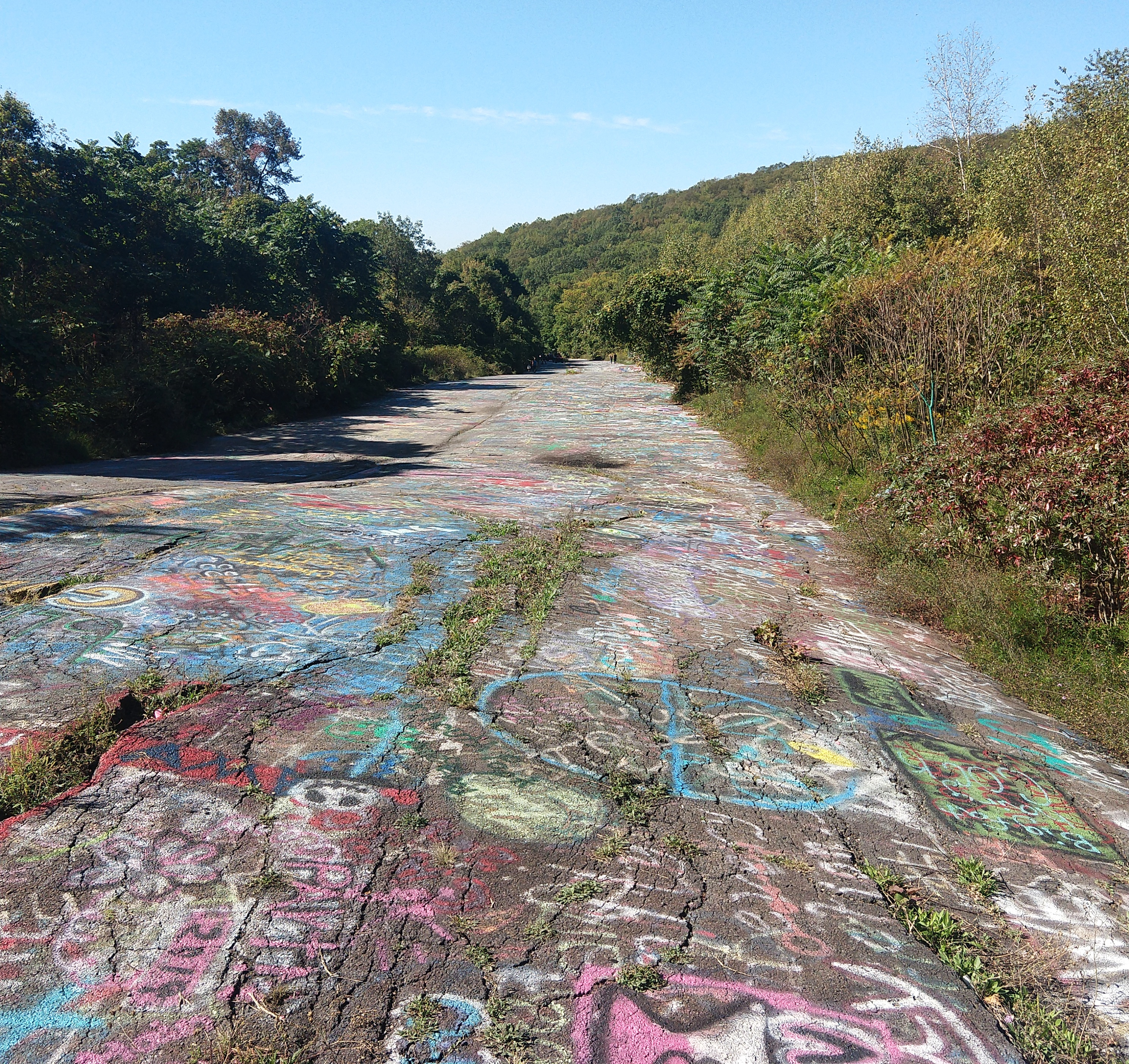 Photo showing the abandoned section of Pennsylvania Route 61 southbound in Conyngham Township, Pennsylvania. The highway had been abandonded due to damage from the Centralia mine fire.